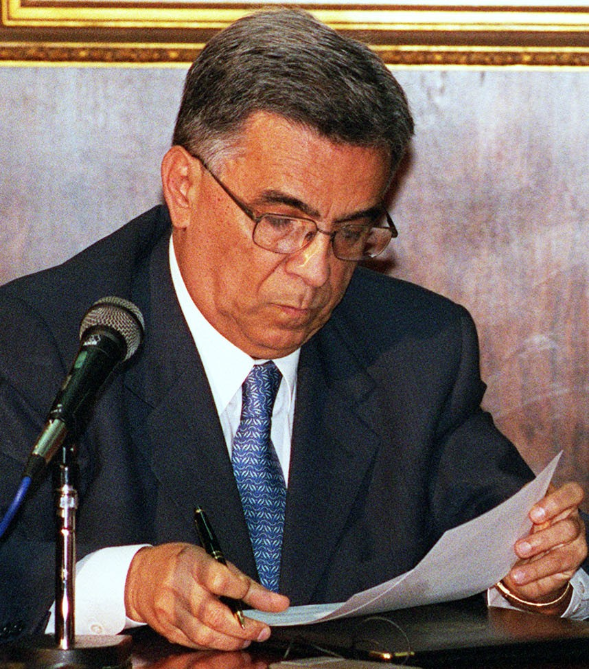 Élcio Álvares, cropped from photo: 991112-D-2987S-076 Minister of Defense Elcio Alvares (left) and Secretary of Defense William S. Cohen (right) sign a Bilateral Working Group Agreement on Nov. 12, 1999, at the Ministry of Defense in Brasilia, Brazil. The agreement provides a forum to discuss defense and security issues of mutual interest between the two leaders. The meeting locations will alternate with the first meeting hosted by the U.S. next year. DoD photo by Helene C. Stikkel. (Released)